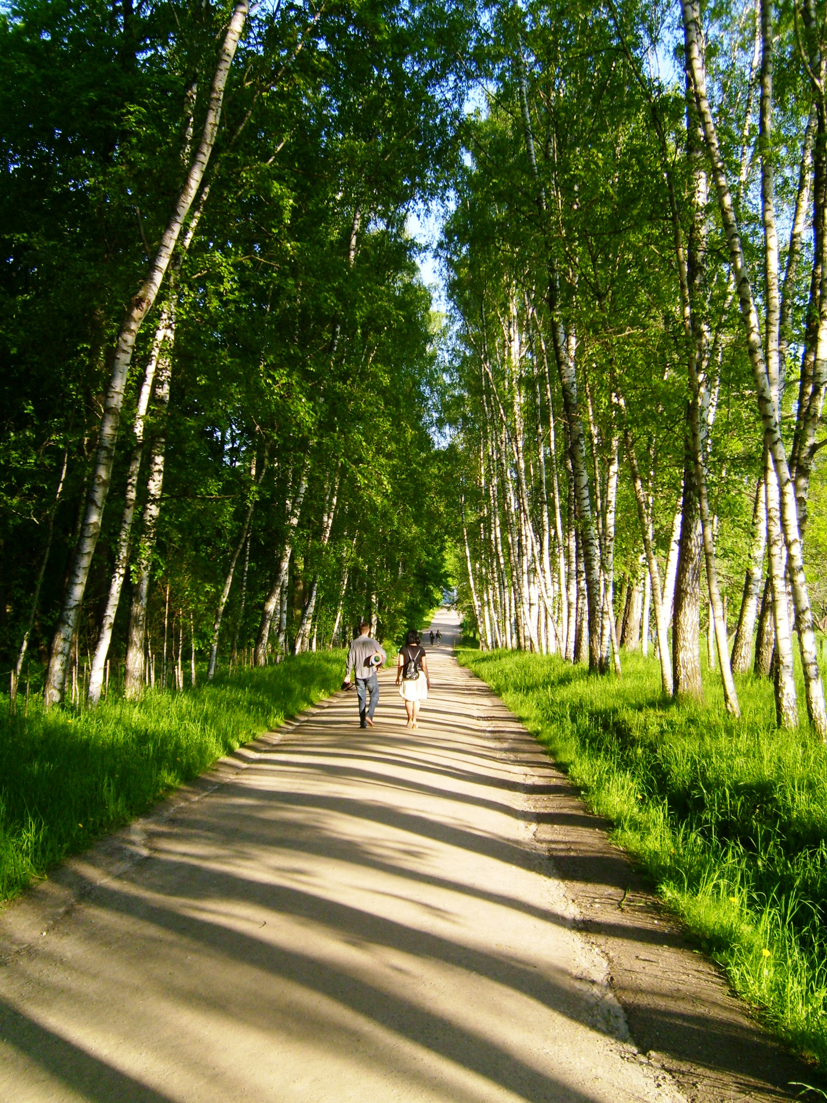 Preshpekt